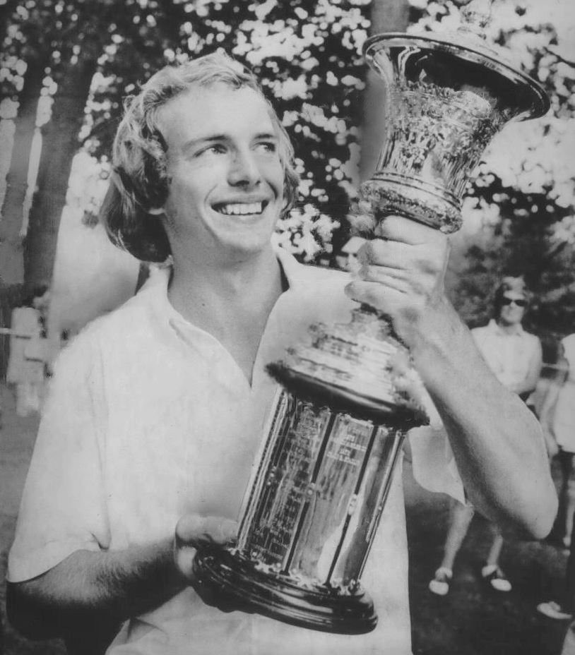 1974 Press Photo Jerry Pate, U.S. Amateur Golf Tournament winner - mjb68716